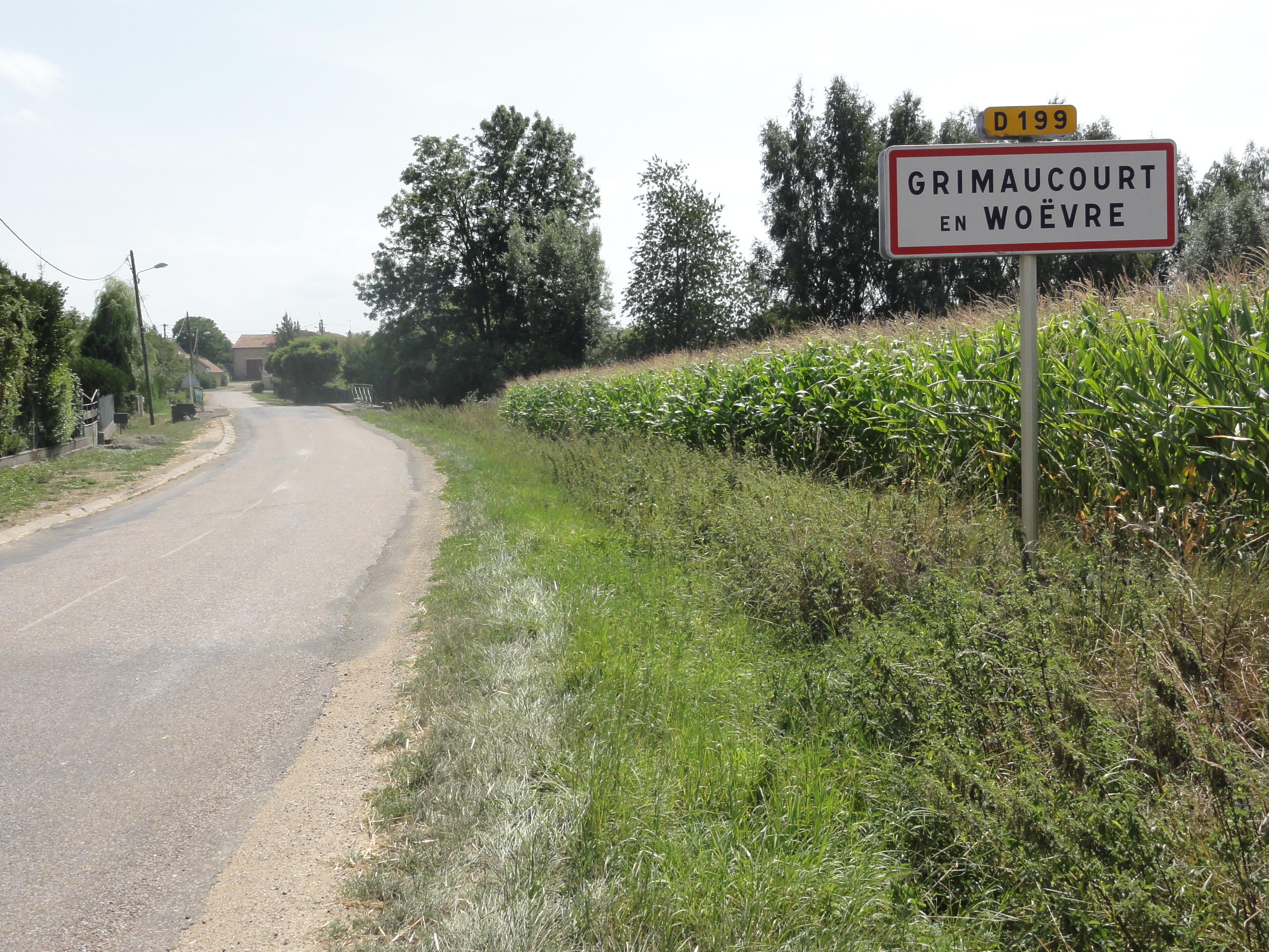 Grimaucourt-en-Woëvre (Meuse) city limit sign